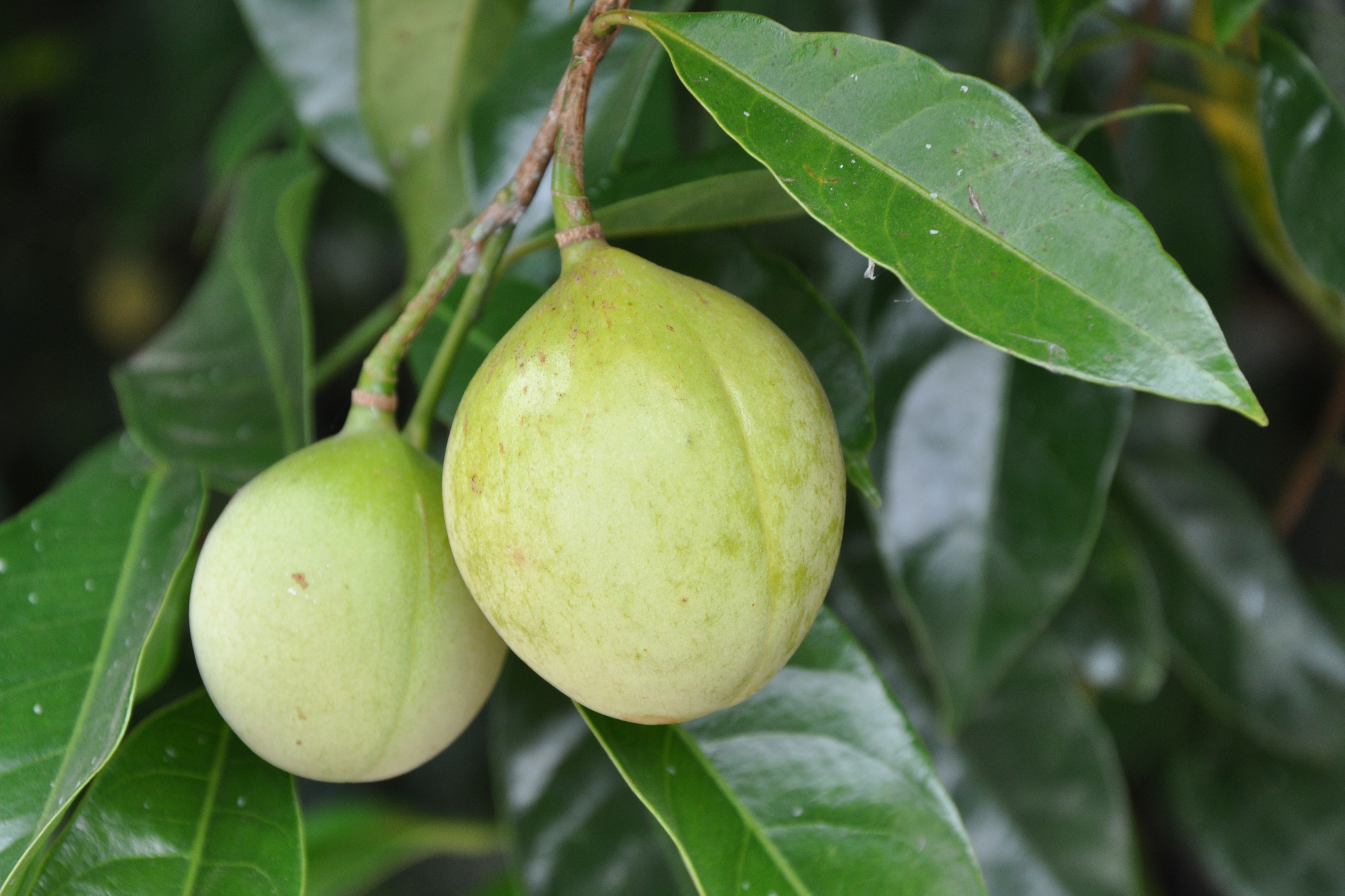 Nutmegs (Myristica fragrans) on a tree in Angamaly, Kerala, India.